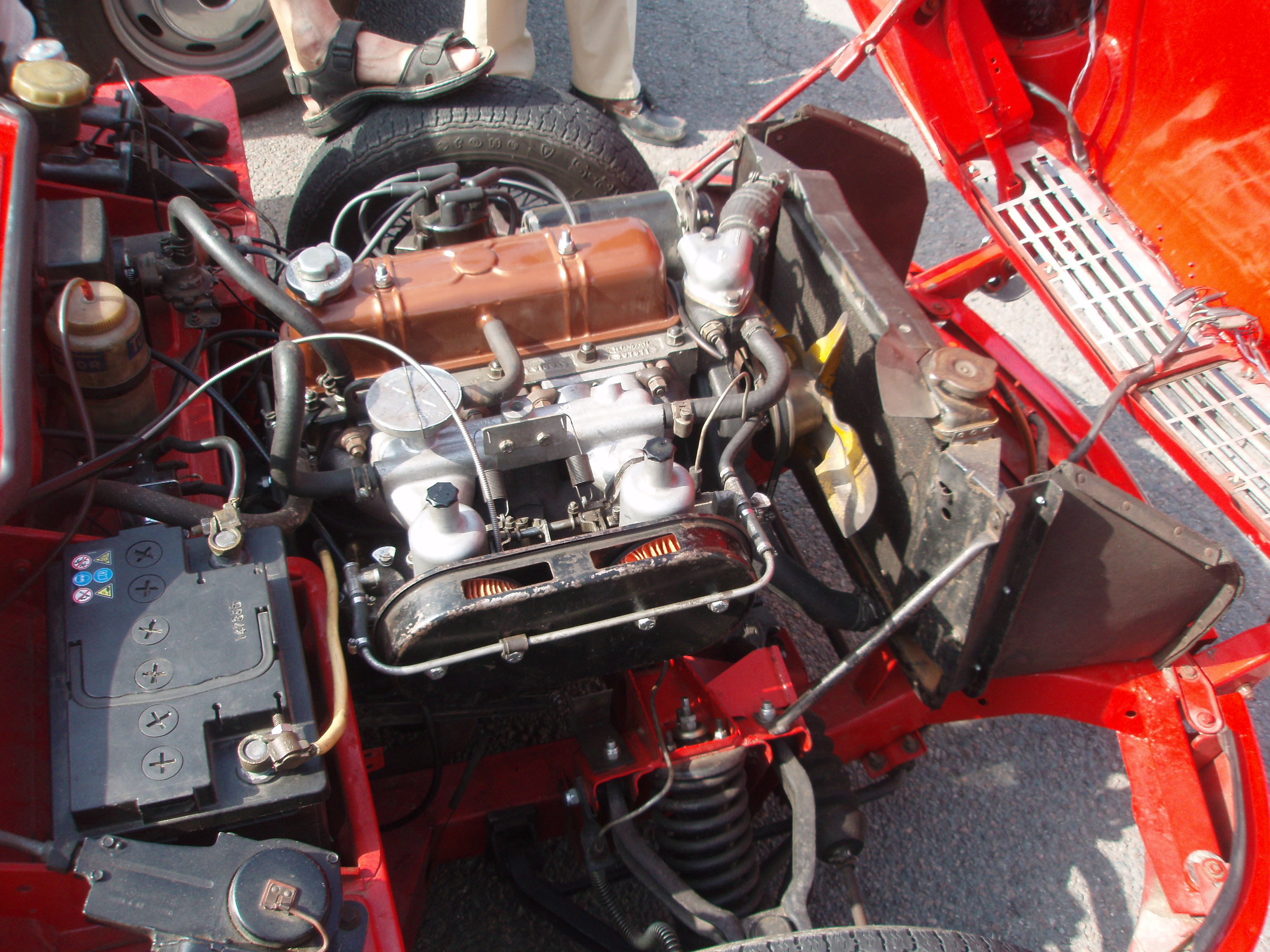 Engine bay of a Triumph Spitfire MK3, restored in its original state (Side valances are missing), viewed from the right.